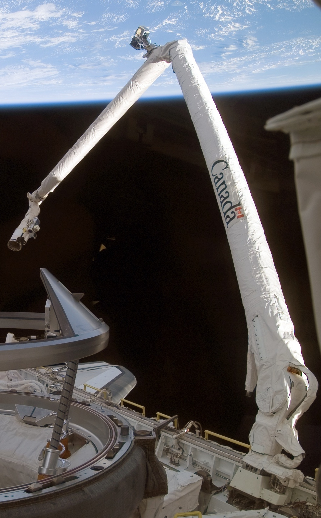 Crop of File:STS-116_Payload_(NASA_S116-E-05364).jpg, showing just the Canadarm.